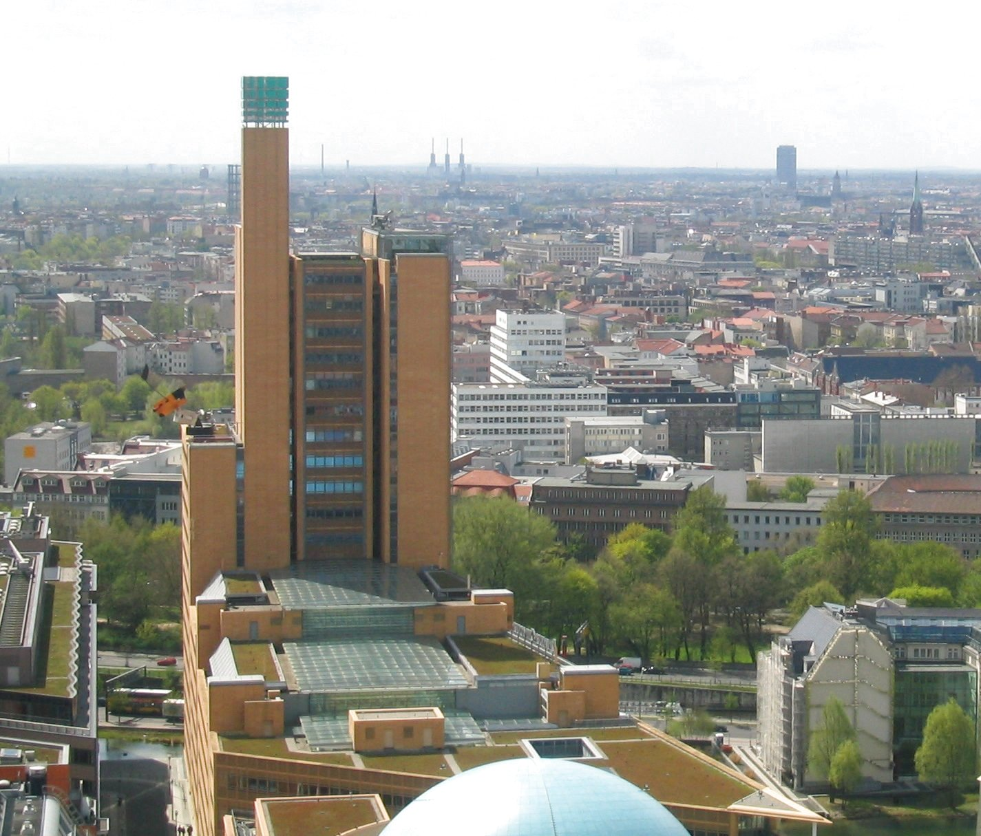 Top view of the debis-Haus in Berlin, taken from the Kollhoff Tower